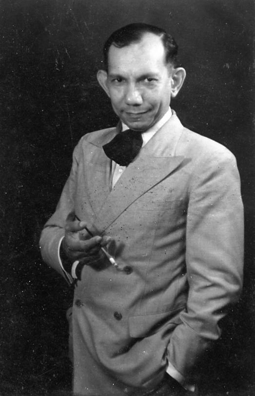 Gerard Pieter Adolfs, about 1937, in Suarabaya on Java